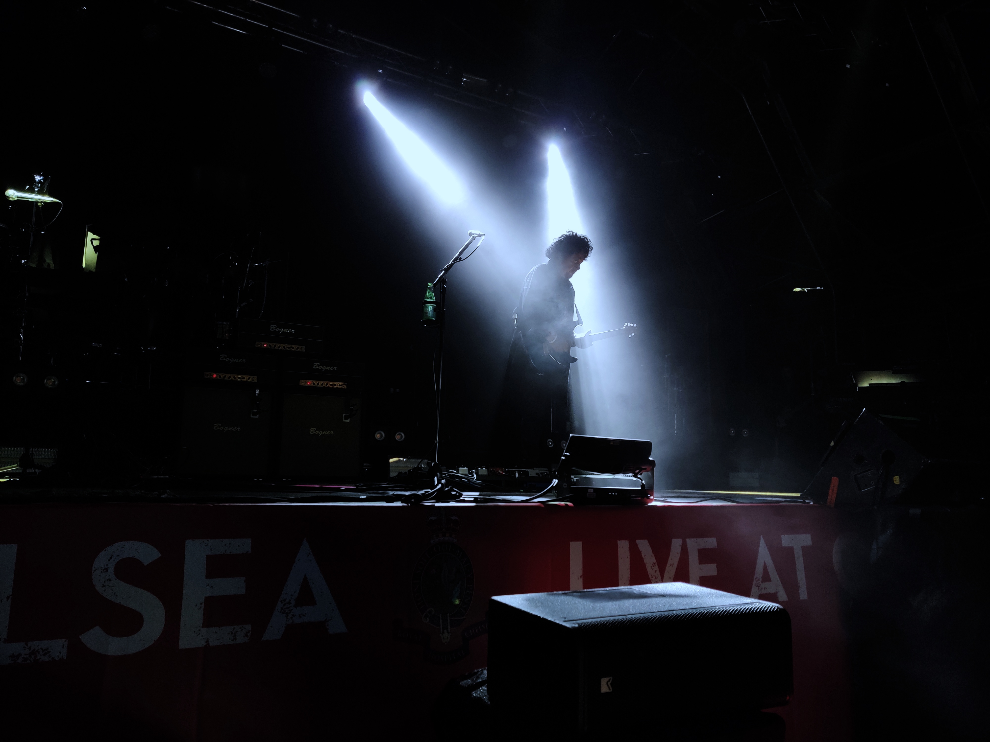 Guitarist Steve Lukather performing a solo at the end of While My Guitar Gently Weeps at the 2019 Live At Chelsea Festival in London.